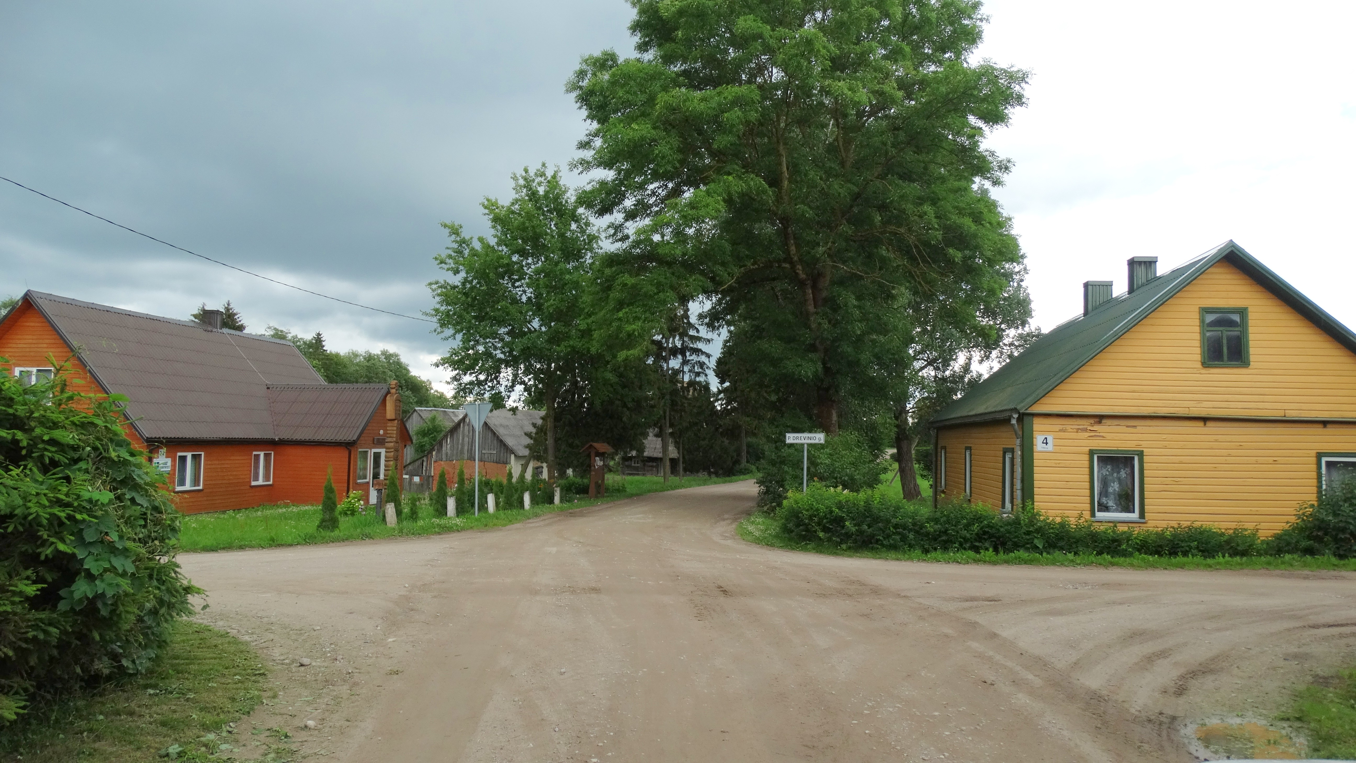 Gulbinai, Biržai district, Lithuania